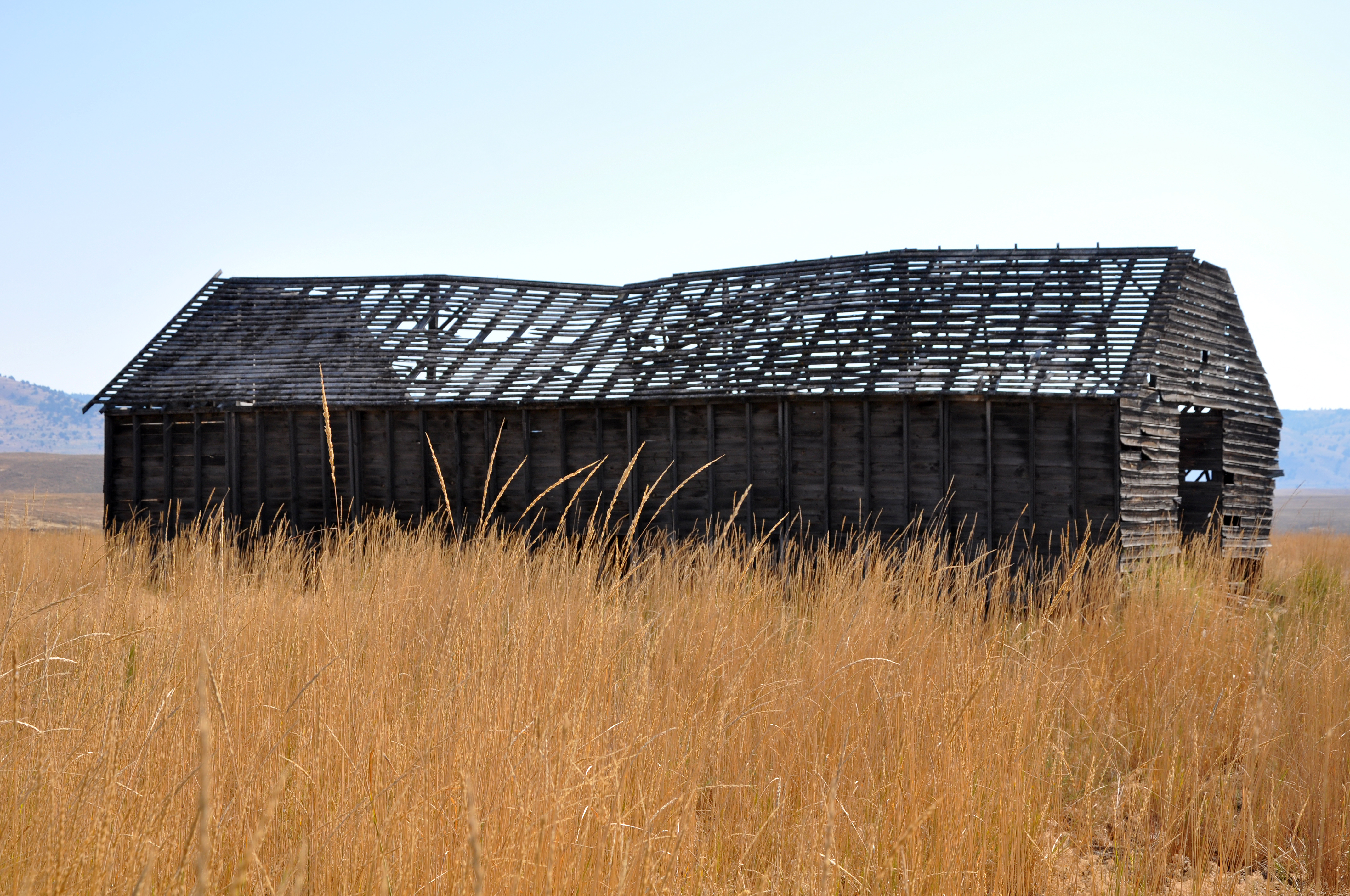 Derelict building at the site of the historic community of Waterman in the U.S. state of Oregon.